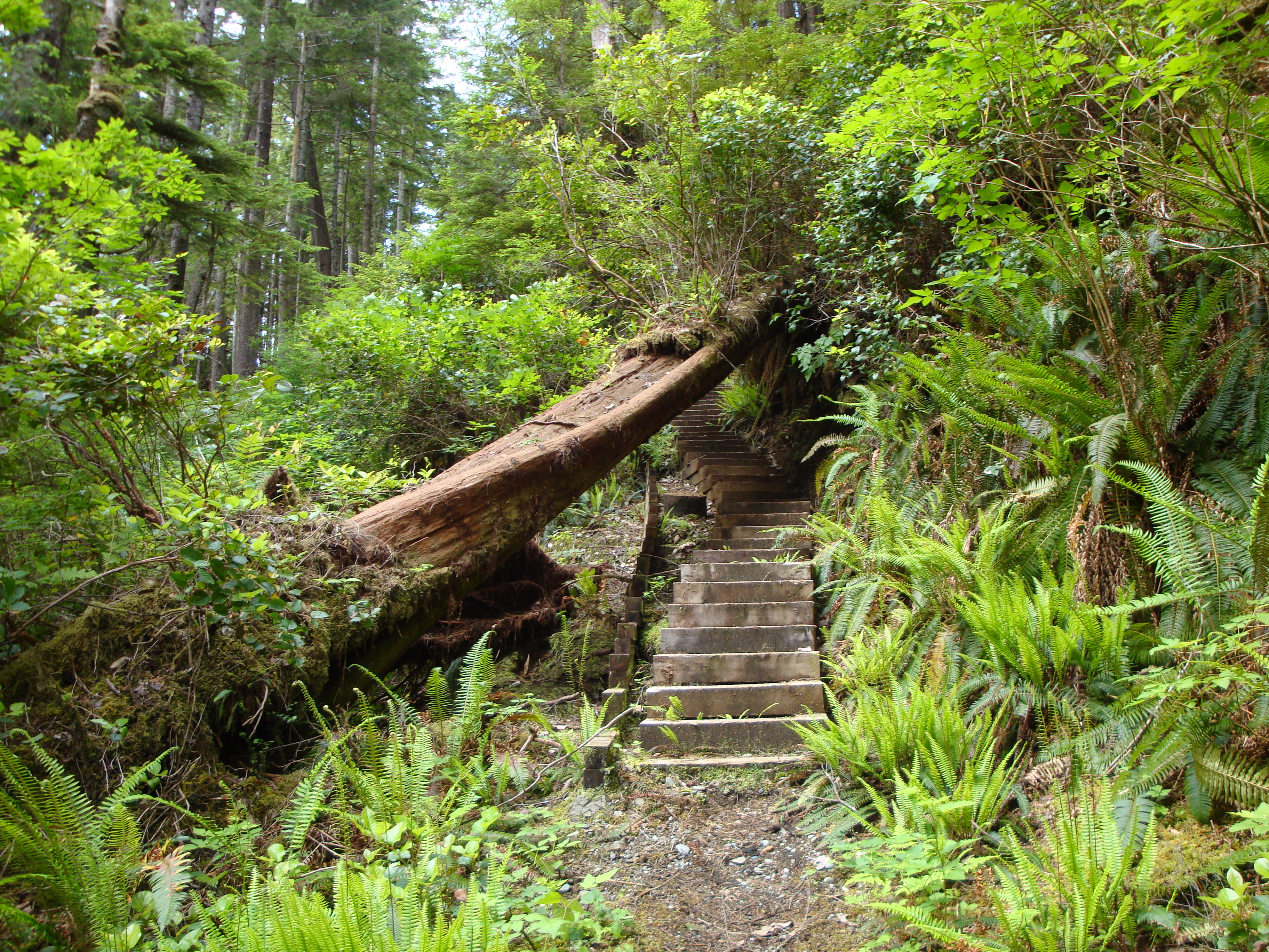 Just west of Laura Creek on the North Coast Trail, Cape Scott Provincial Park, British Columbia